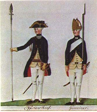 1783 Hessen-Kassel army - Fusilier Regiment von Knyphausen - officer and private.